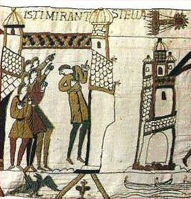 Tapestry of Bayeux (Normandy) with Halley's comet. Text reads ISTI MIRANT STELLA: "These (people) are looking in wonder at the star."